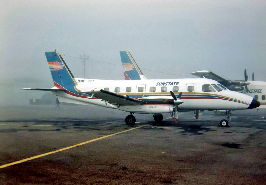 Sunstate Airlines Embraer EMB-110P1 Bandeirante at Mildura Airport